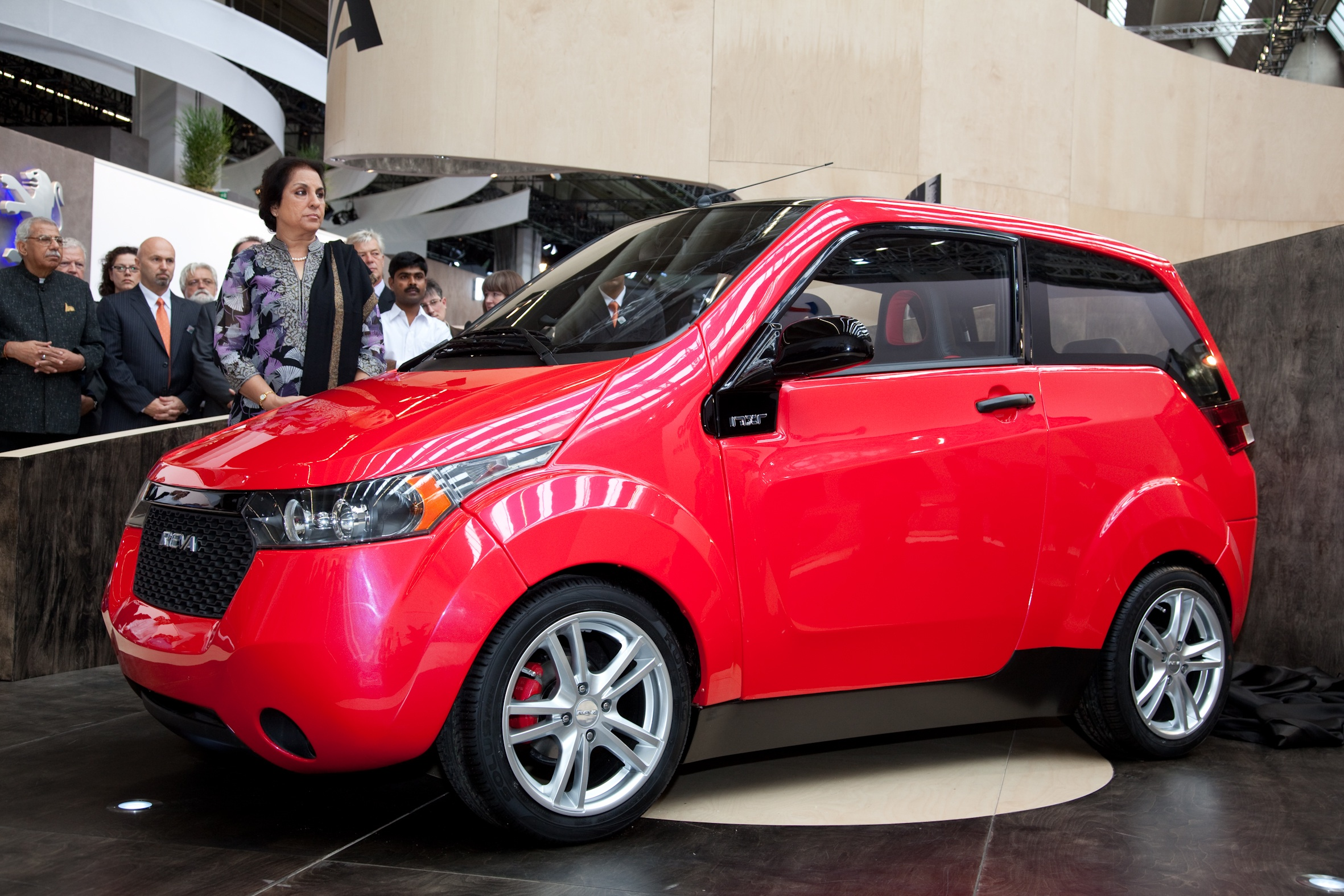 Bilder fra Frankfurt International Motor Show (IAA) 2009, hvor REVA NXR og REVA NXG ble lansert. Her: Reva Maini (Chetan Mainis mor)